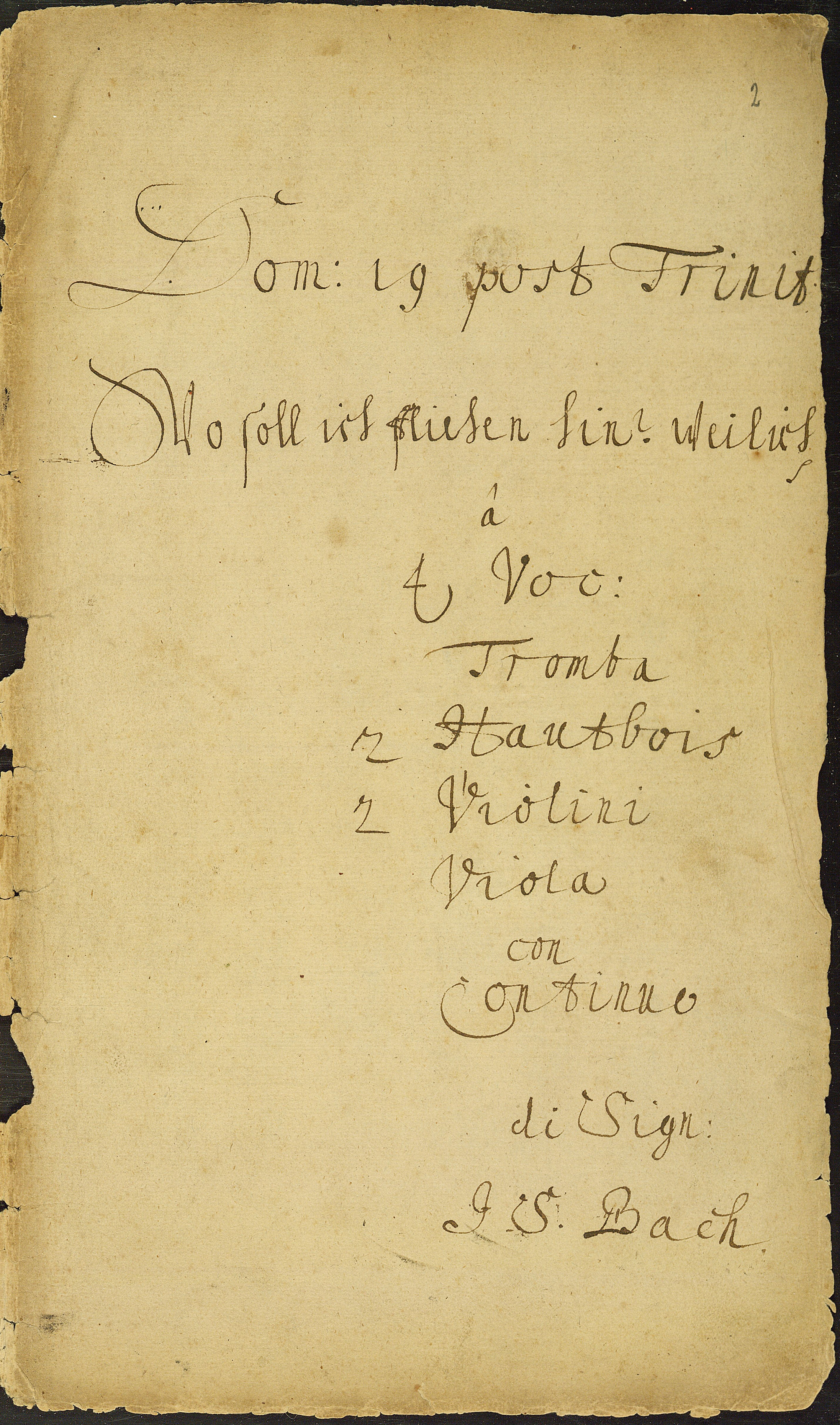 J.S. Bach’s autograph manuscript for Wo soll ich fliehen hin (BWV 5), part of the Zweig collection at the British Library (ref: Zweig MS 1).